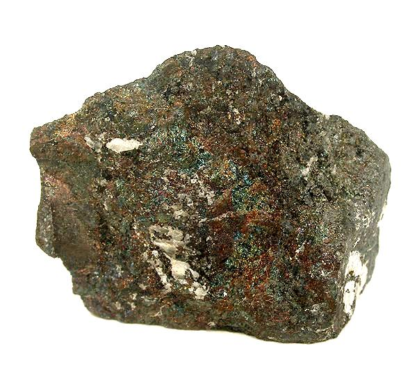 Gallite Locality: Tsumeb Mine (Tsumcorp Mine), Tsumeb, Otjikoto (Oshikoto) Region, Namibia (Locality at ) Size: 3.9 x 2.8 x 1.2 cm. Gallite is a very rare copper, gallium sulfide and is one of the rare mineral species for which Tsumeb is renowned. Sparkly, gray microcrystals of gallite with a lilac tinge are scattered on the matrix of germanite and renierite. Gallite and germanite have a similar color. This rich ore specimen definitely has a rainbow of iridescent rare species. This specimen was formerly in the collection of John White of Seattle, a noted systematic rarities collector. John was a friend of analyzer-of-rare-species Bart Cannon, who could X-ray any questionable mineral specimens and often did so for him, or sold them to him in the first place. So, the identification of this specimen having gallite in it, is certainly correct. Bart Cannon is in fact selling the collection, so it came back through him, as well.